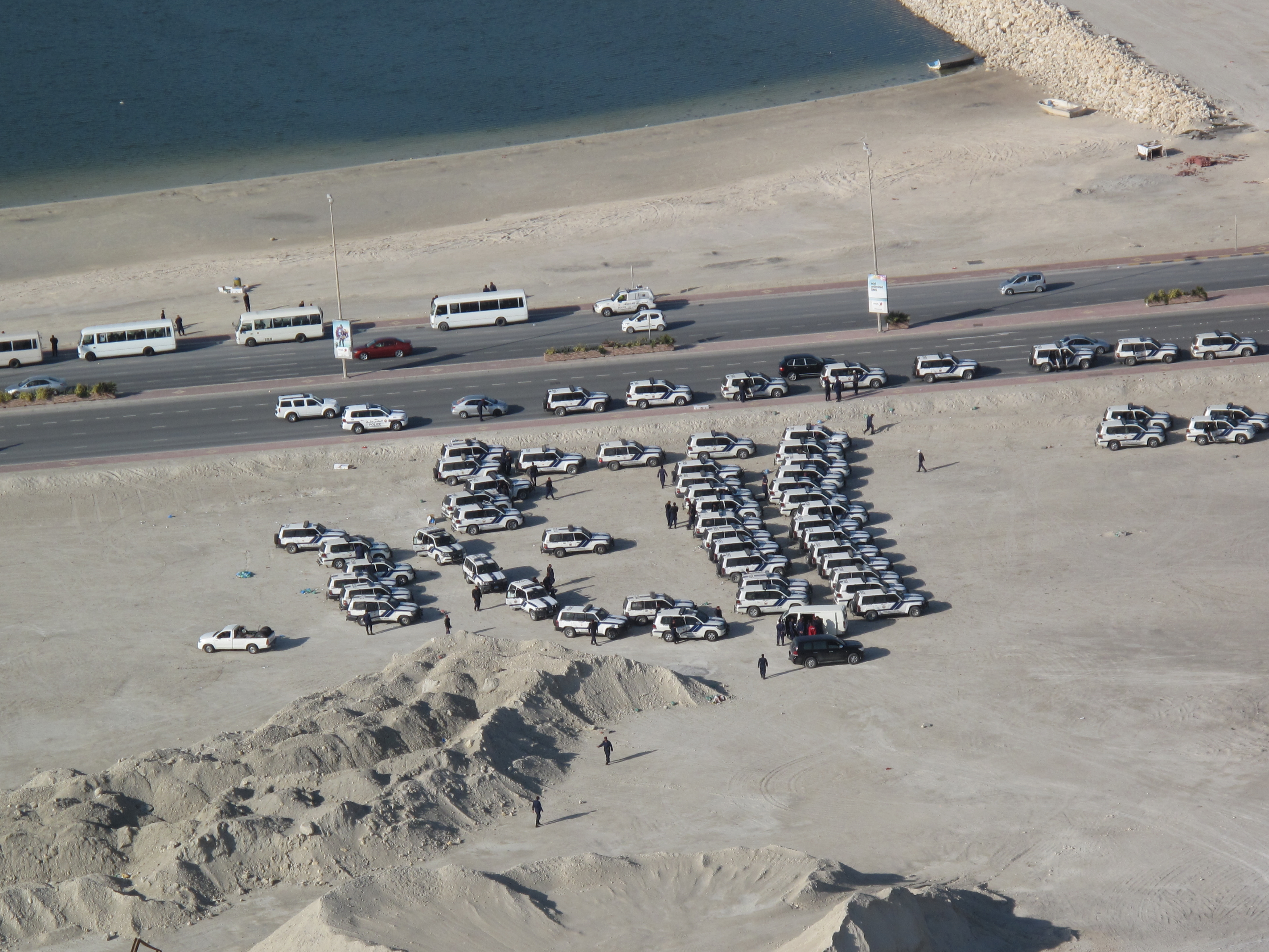 Police north of Pearl Roundabout